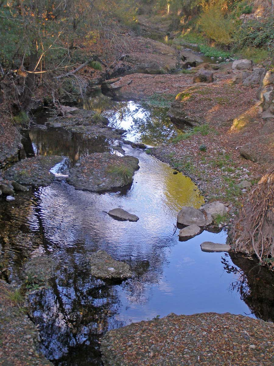 photographer: self